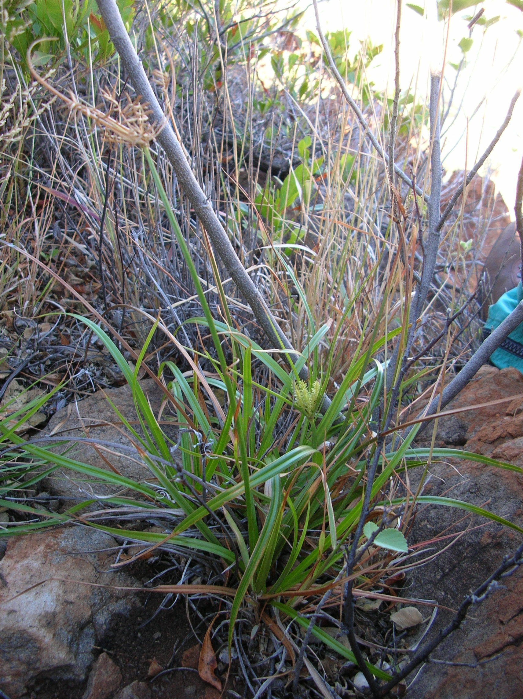 Cyperus hillebrandii subsp. decipiens (habit). Location: Maui, Lihau